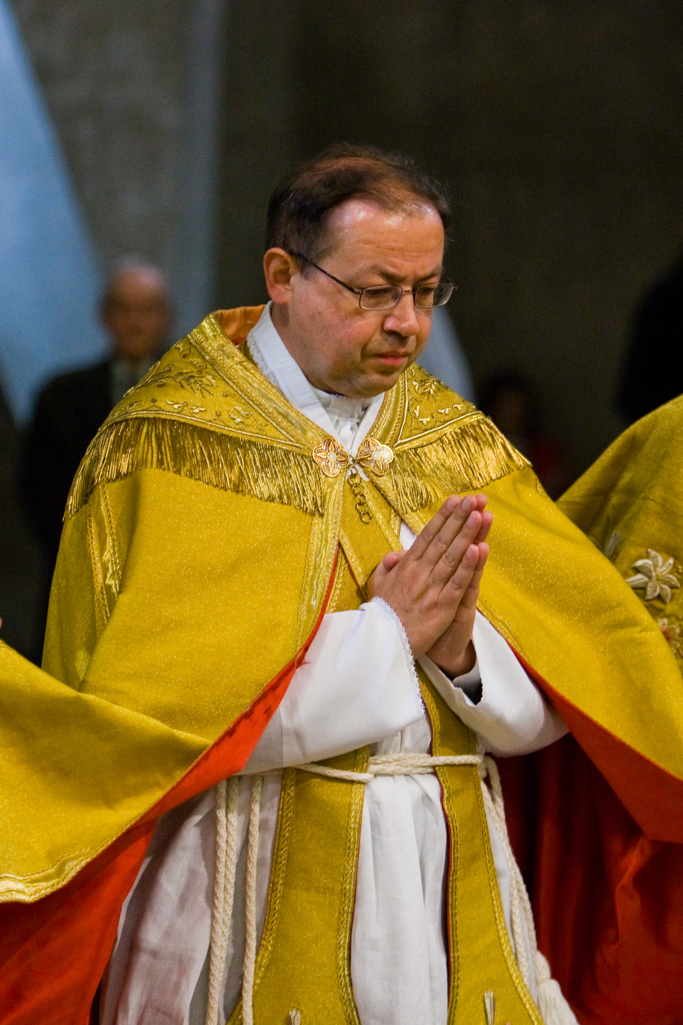 Father Niklaus Pfluger, FSSPX - Lourdes 2008